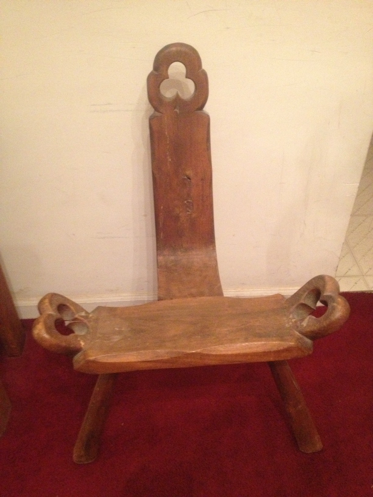 Wooden Birthing Chair